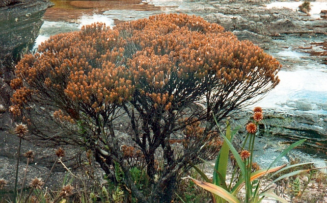 Bonnetia roraimae, Habitus on the Roraima Tepui